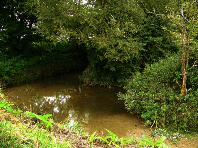 Ford near Alhampton